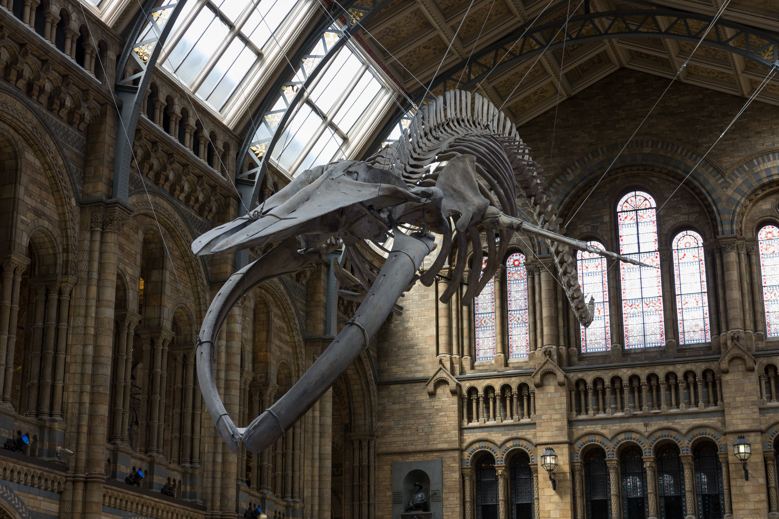 A Blue Whale (Balaenoptera musculus) skeleton mounted in Hintze Hall of the Natural History Museum, London, UK. 2017. Photo by Stephen O'Connor. Canon 60d, Sigma 18-35mm.